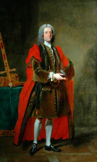 Portrait of Sir John Lister-Kaye, 1st Baronet (1772–1827) as Lord Mayor of York.